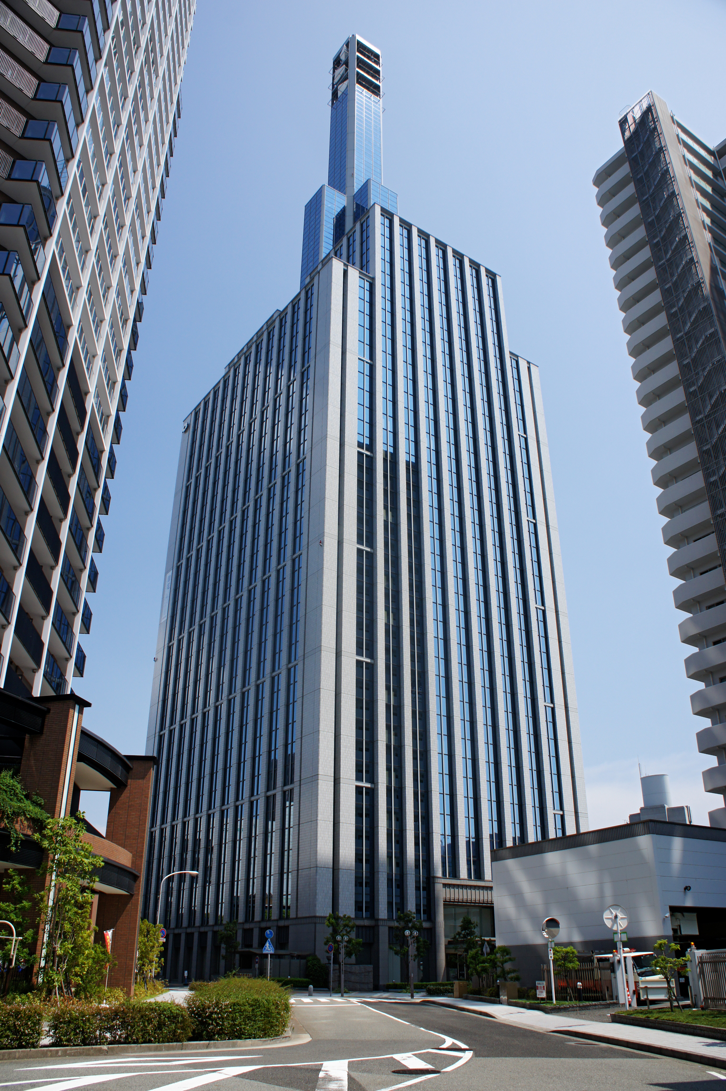 Kobe-Kanden Building in Kobe, Hyogo prefecture, Japan